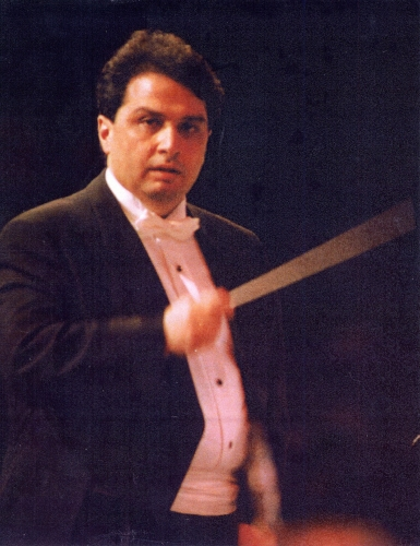 Mohammad Shams in Germany 1997